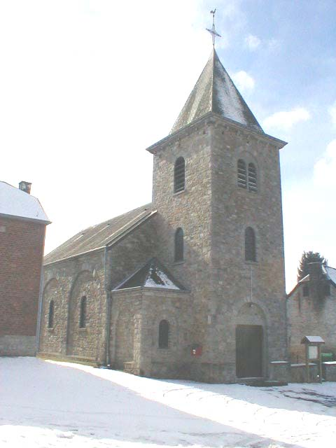 church of Wiesme (Beauraing)